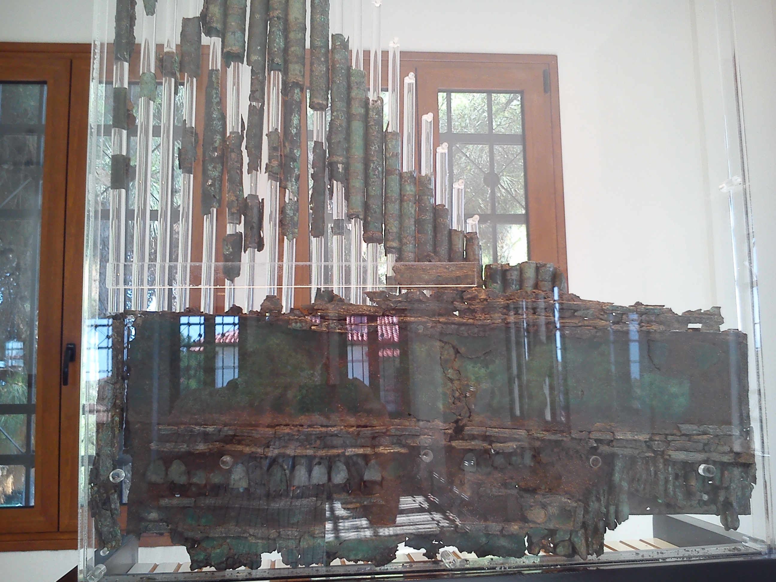 Hydraulis from Dion